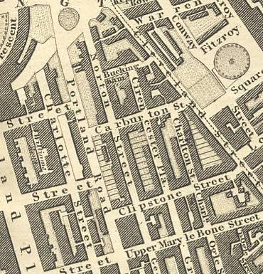 Electronic extract of Christopher Greenwood's Map of London of 1827 showing Great Portland Street as maintained on